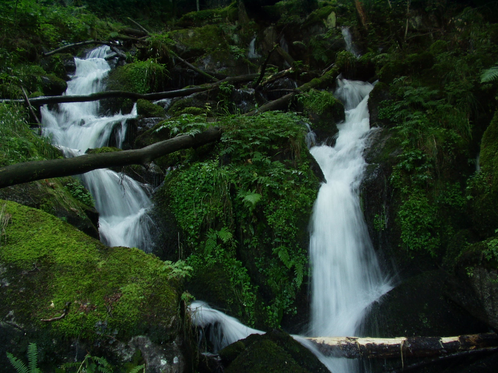 Description = Waterfall in Vosges mountains Author = Philipp Hertzog